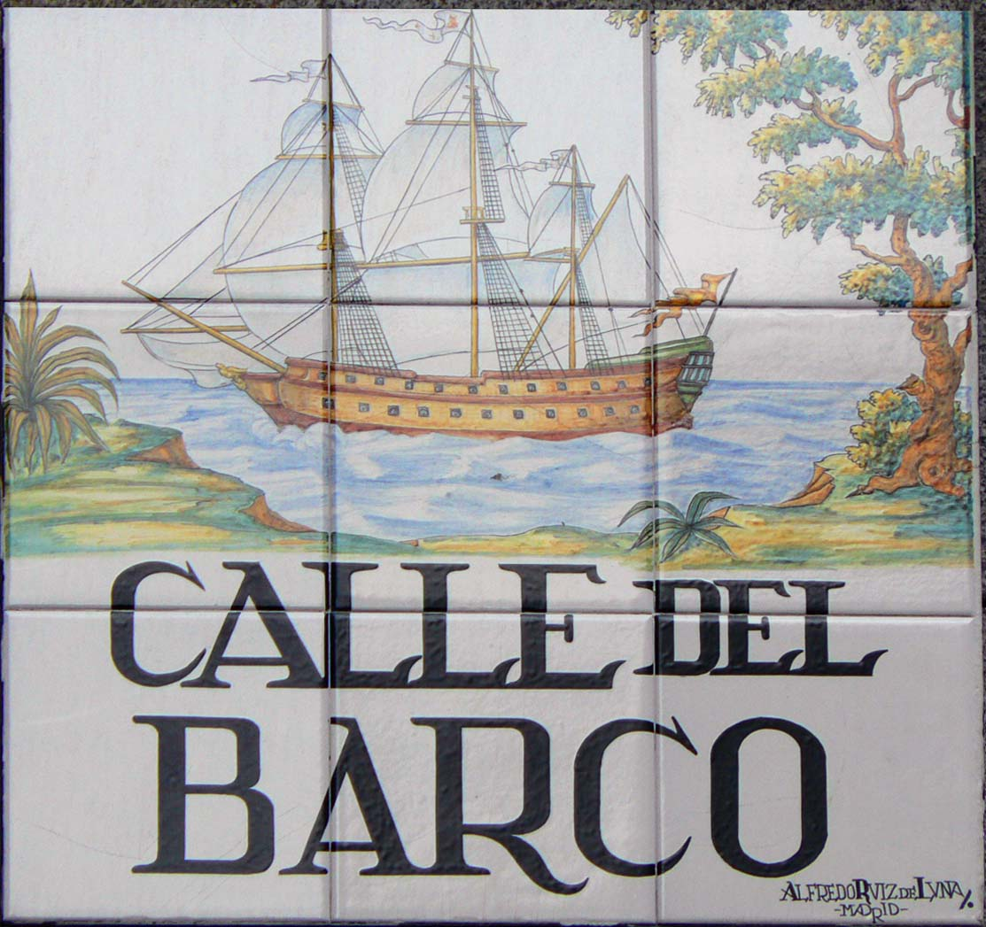 Sign of Calle del Barco (street, Centro district) in Madrid (Spain).